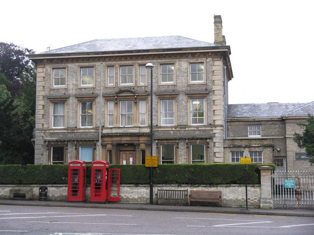 The Cedars, Church Square at the end of the High Street in Leighton Buzzard, Bedfordshire, England. Built in 1855 for Mr. John Dollin Bassett. Designed by W. C. Read. Current location of Leighton Middle School, and occupied by Cedars Upper School until 1973. Location: OSGB36: SP 919 249, WGS84: 51:54.9192N 0:39.8815W